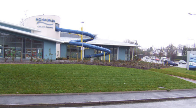 Monaghan Leisure Complex Built in 2005 by a private company, the centre is on the Clones road, west of the town.